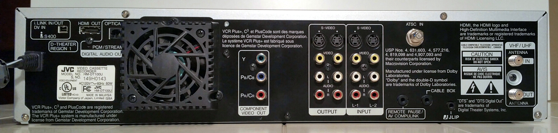 digital video recorder JVC model HM-DT100U back panel